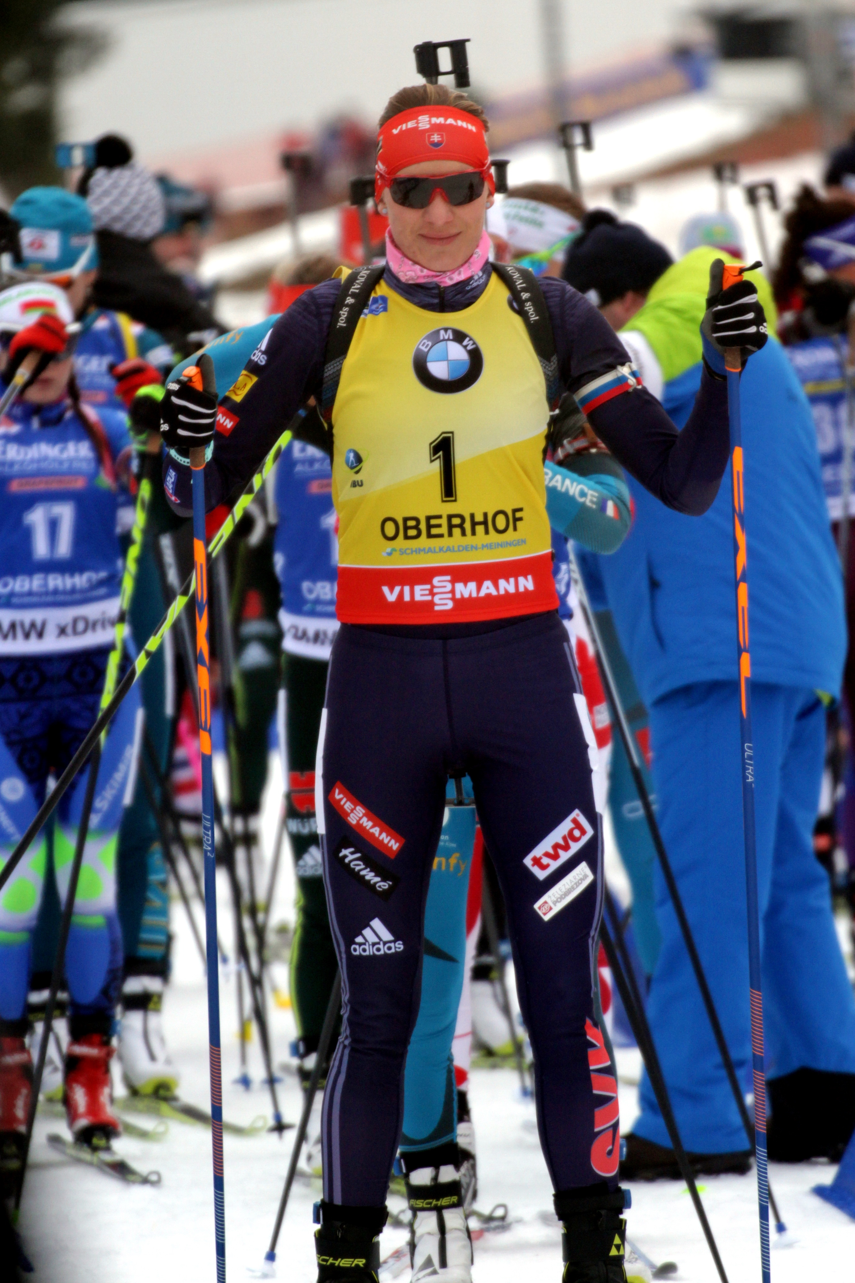 2018 Oberhof Biathlon World Cup - Pursuit Women